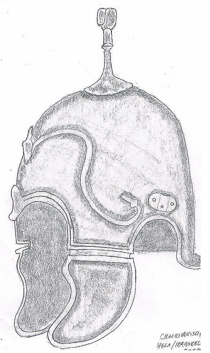 Chalkidikian Helmet Ibero-Celtic special Type